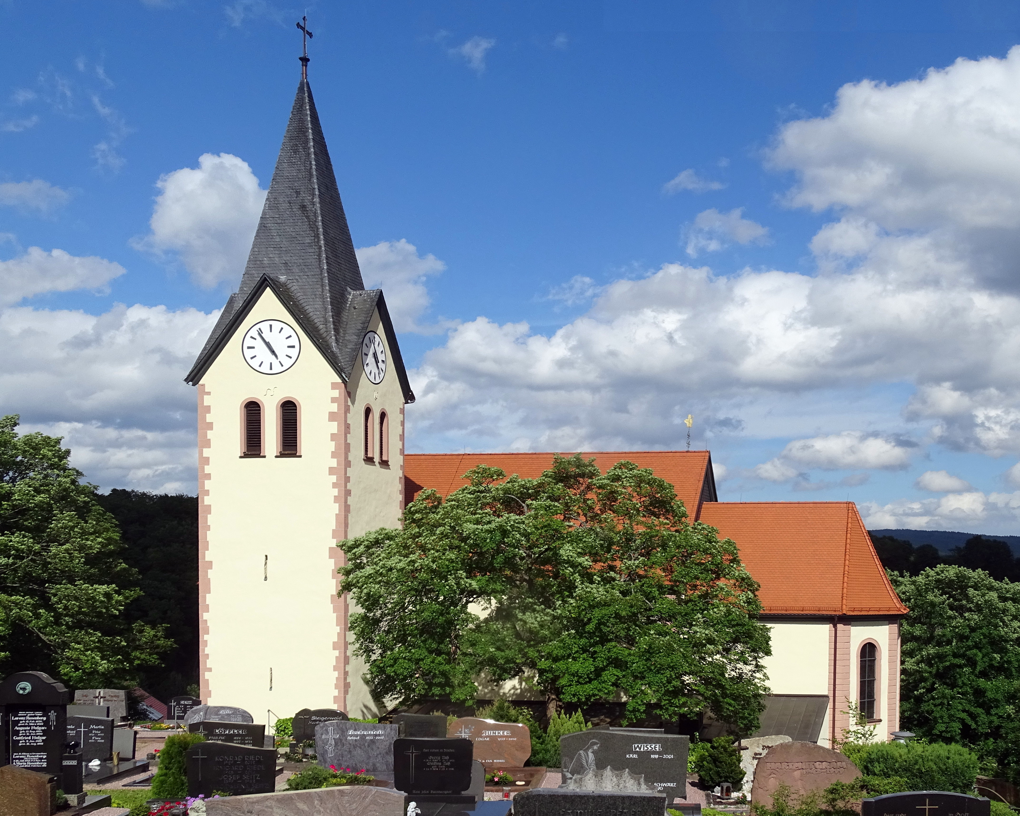 Catholic parish church of St. Lambertus and St. Sebastian in Krombach